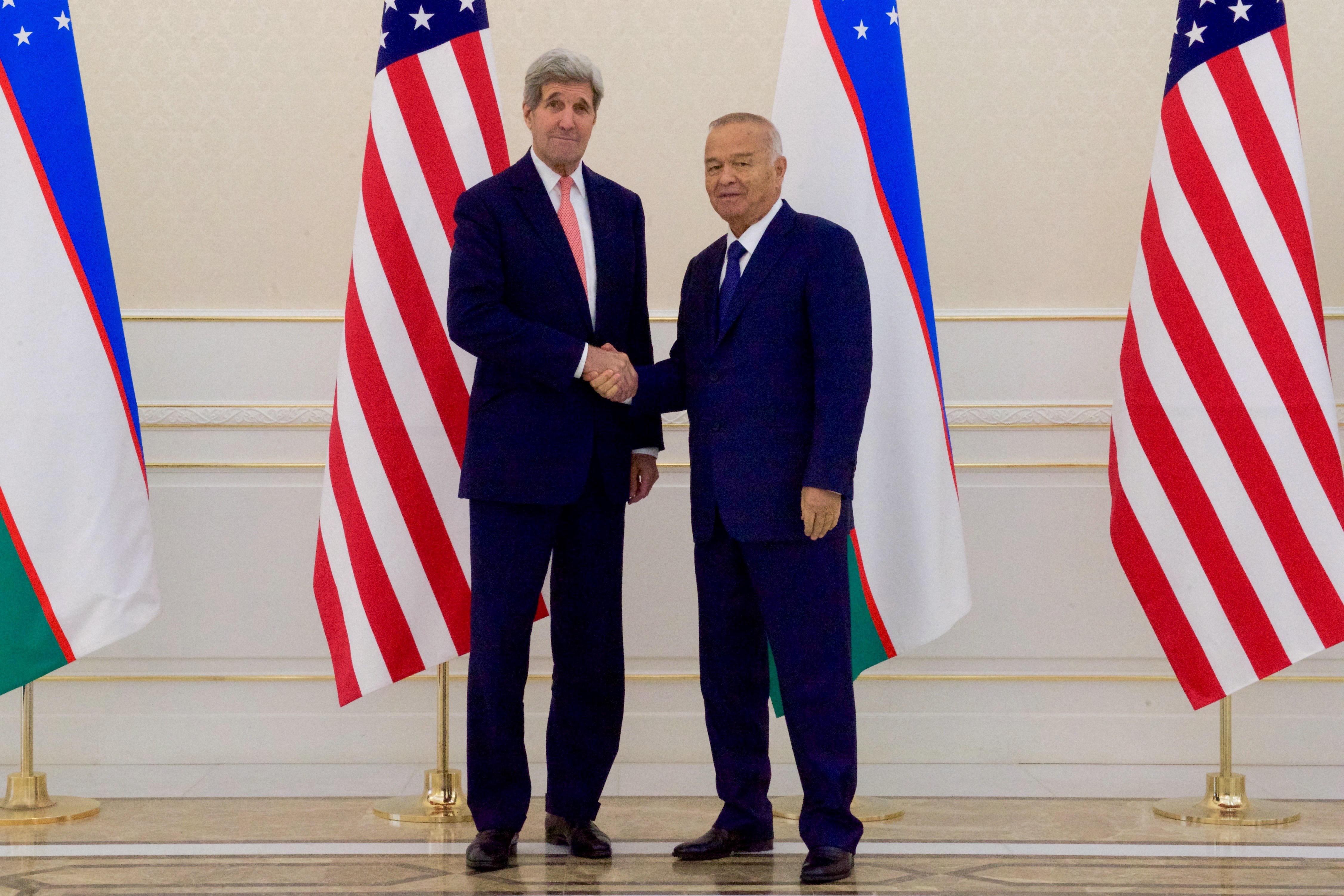 U.S. Secretary of State John Kerry shakes hands with Uzbekistan President Islam Karimov at the President’s Residential Compound in Samarkand, Uzbekistan, on November 1, 2015, after the Secretary arrived for a bilateral meeting and broader group discussion with all five Central Asian nations.